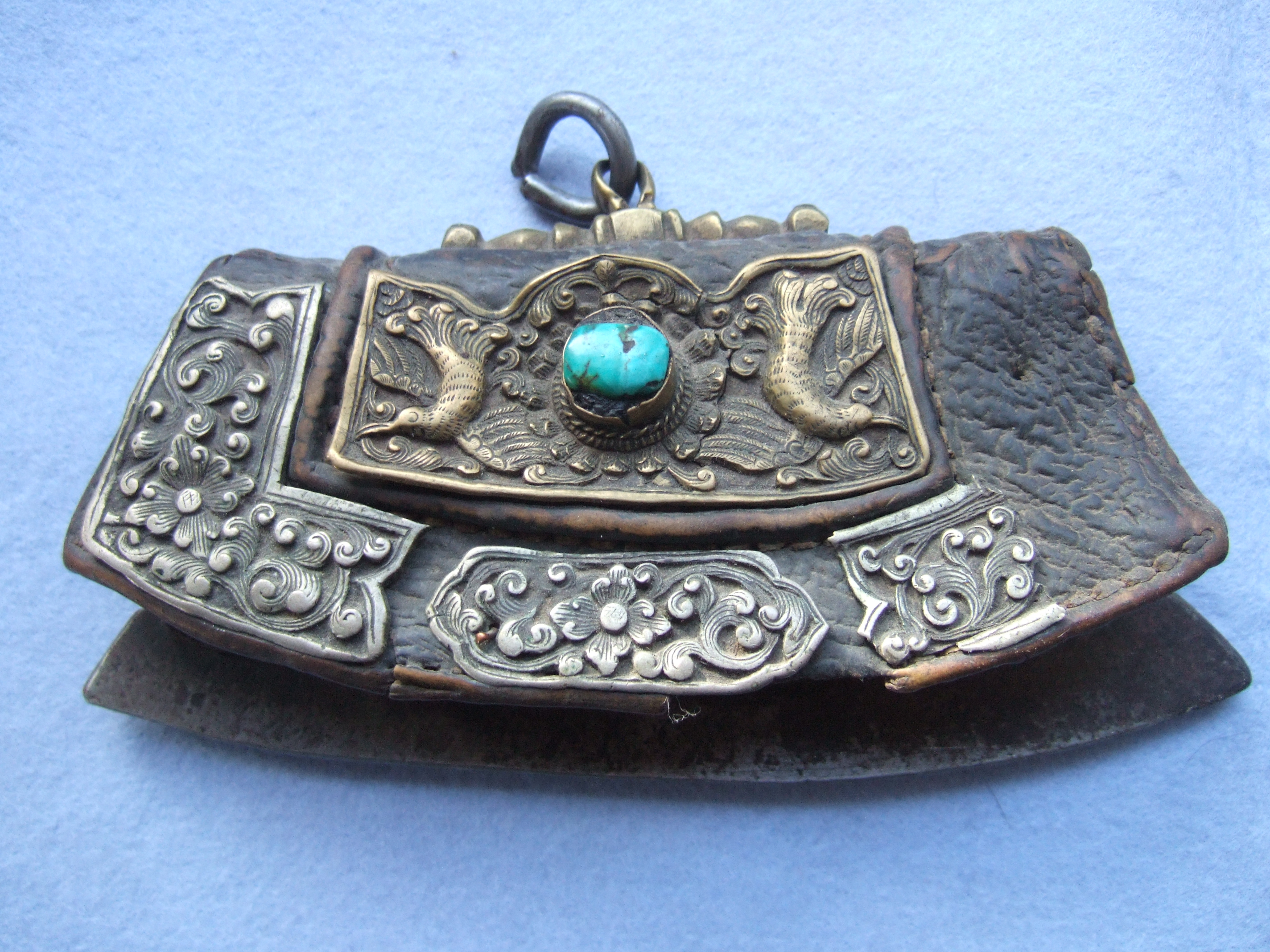 Tibetan flintpoach (lighter)